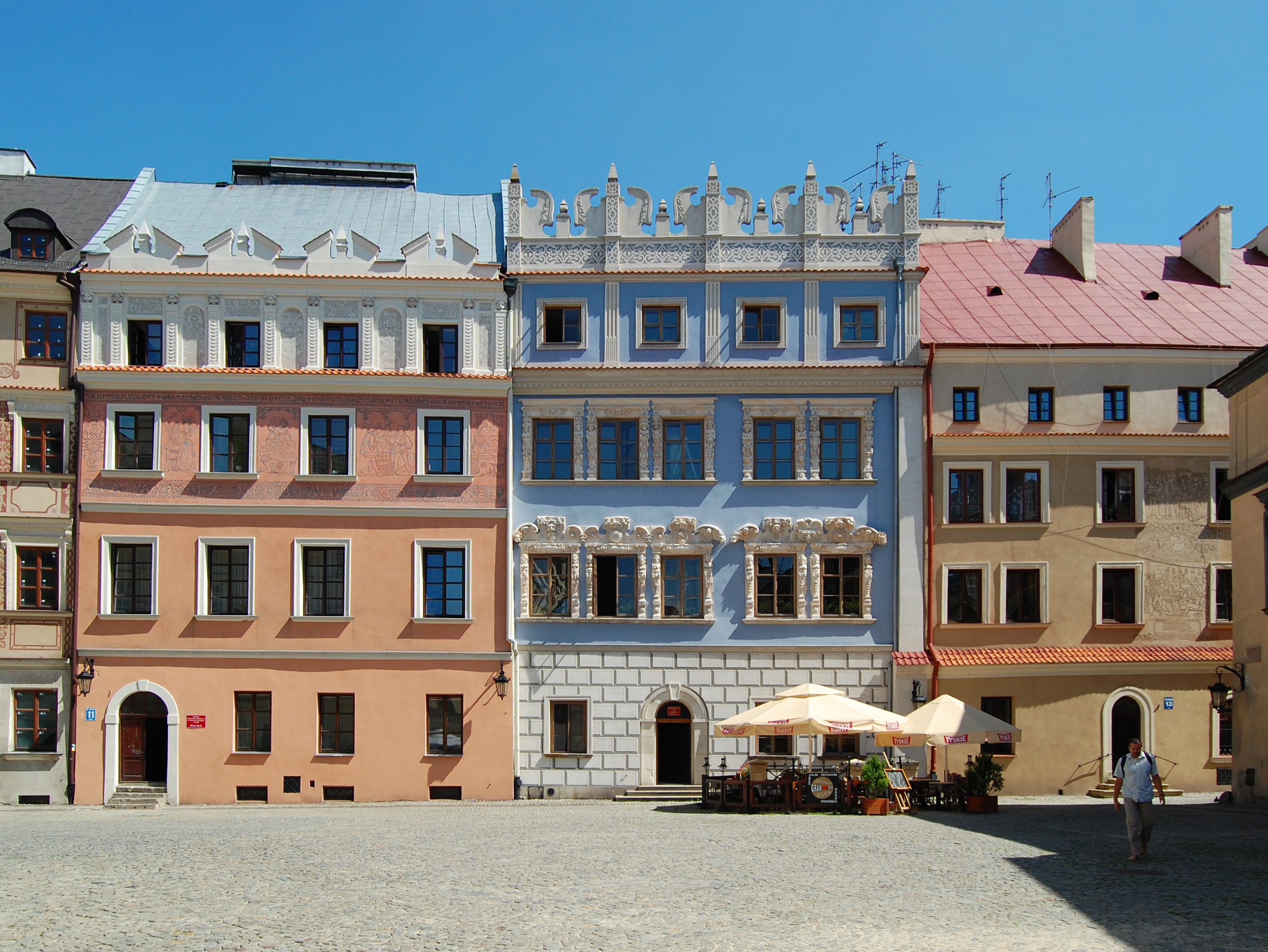 Tentement Houses in Lublin Market Square, Poland.